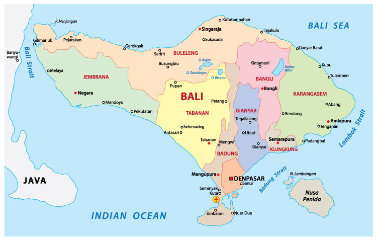 Bali regencies